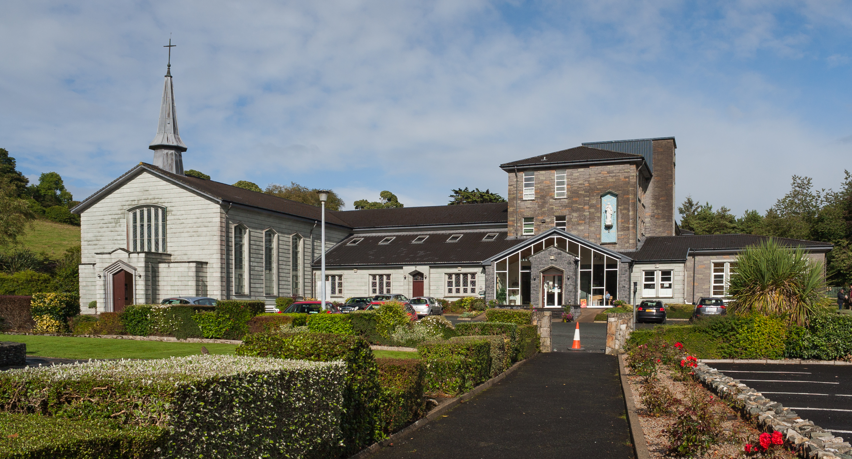 Ards church and conference centre, looking west.